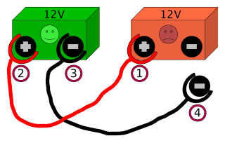 Jump start a vehicle: Green car battery is the working one, red car battery is flat. Circled digits show the order of connecting. Disconnecting is done in reverse order.